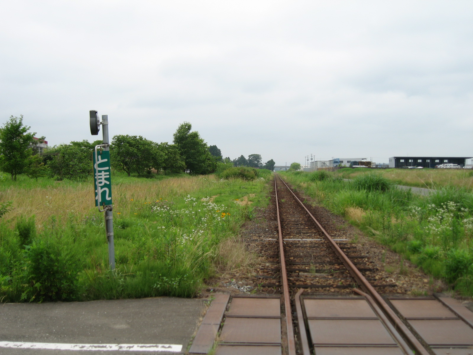 Ghost Station; Ookasho-mae Station, Kurihara Kogen Railway